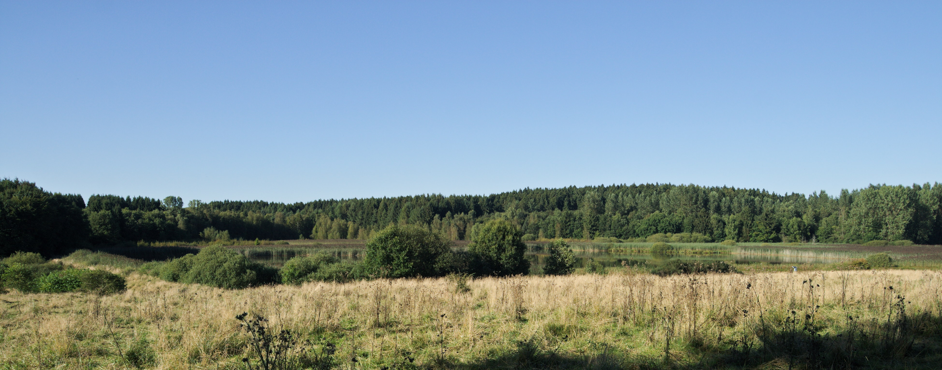 Nature reserve Wölferlinger Weiher, Westerwald, Germany. (Almost) total view of the pond that is small compared to the other ponds of Westerwälder Seenplatte